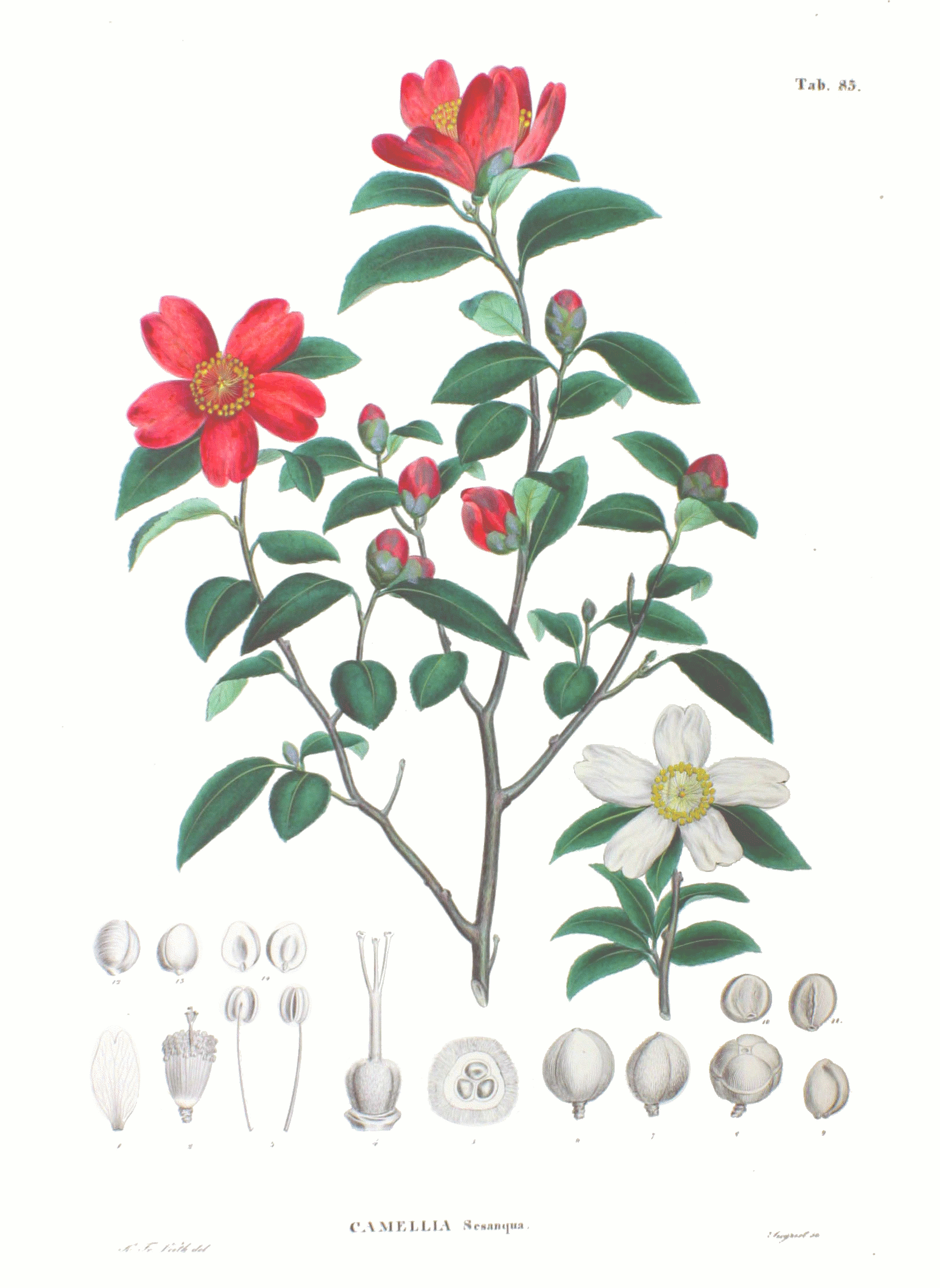 Plate from book